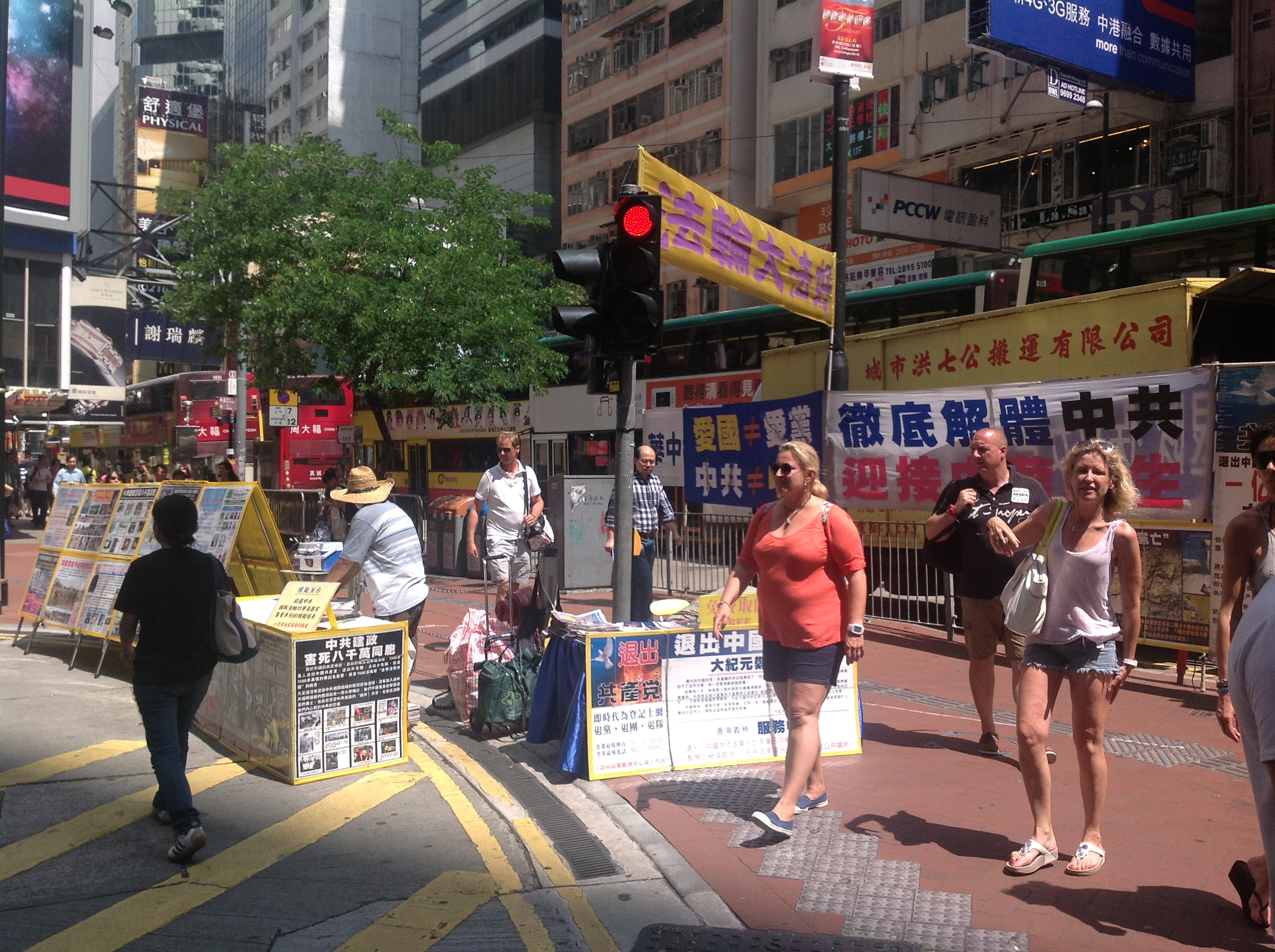 Tuidang Service Center outside Causeway Bay Station in Hong Kong